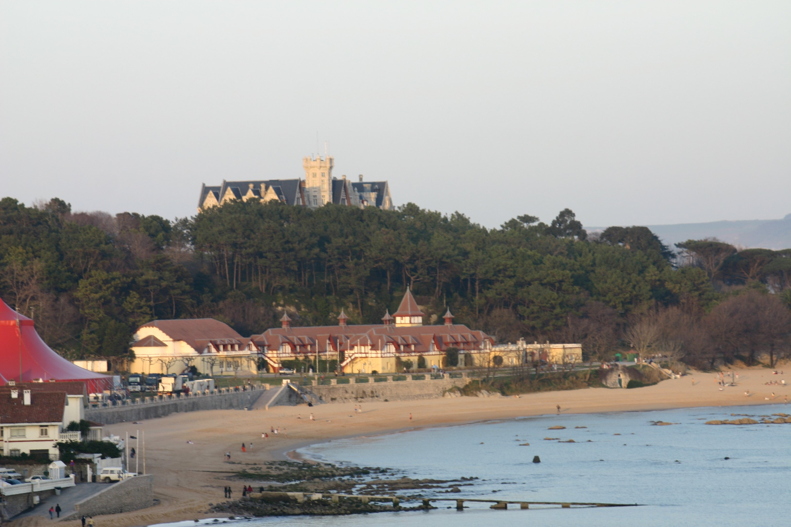 City of Santander. Isla de la Magdalena